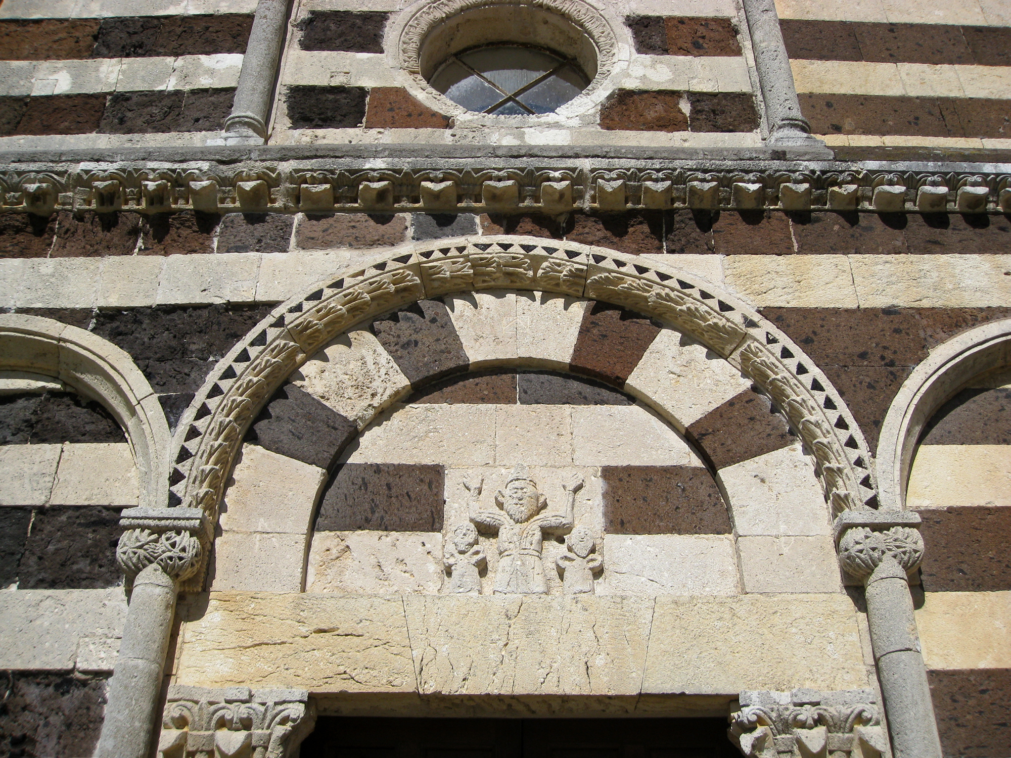 Facade of the Romanesque Church San Pietro di Simbranos, Province Sassari, Sardinia, Italy